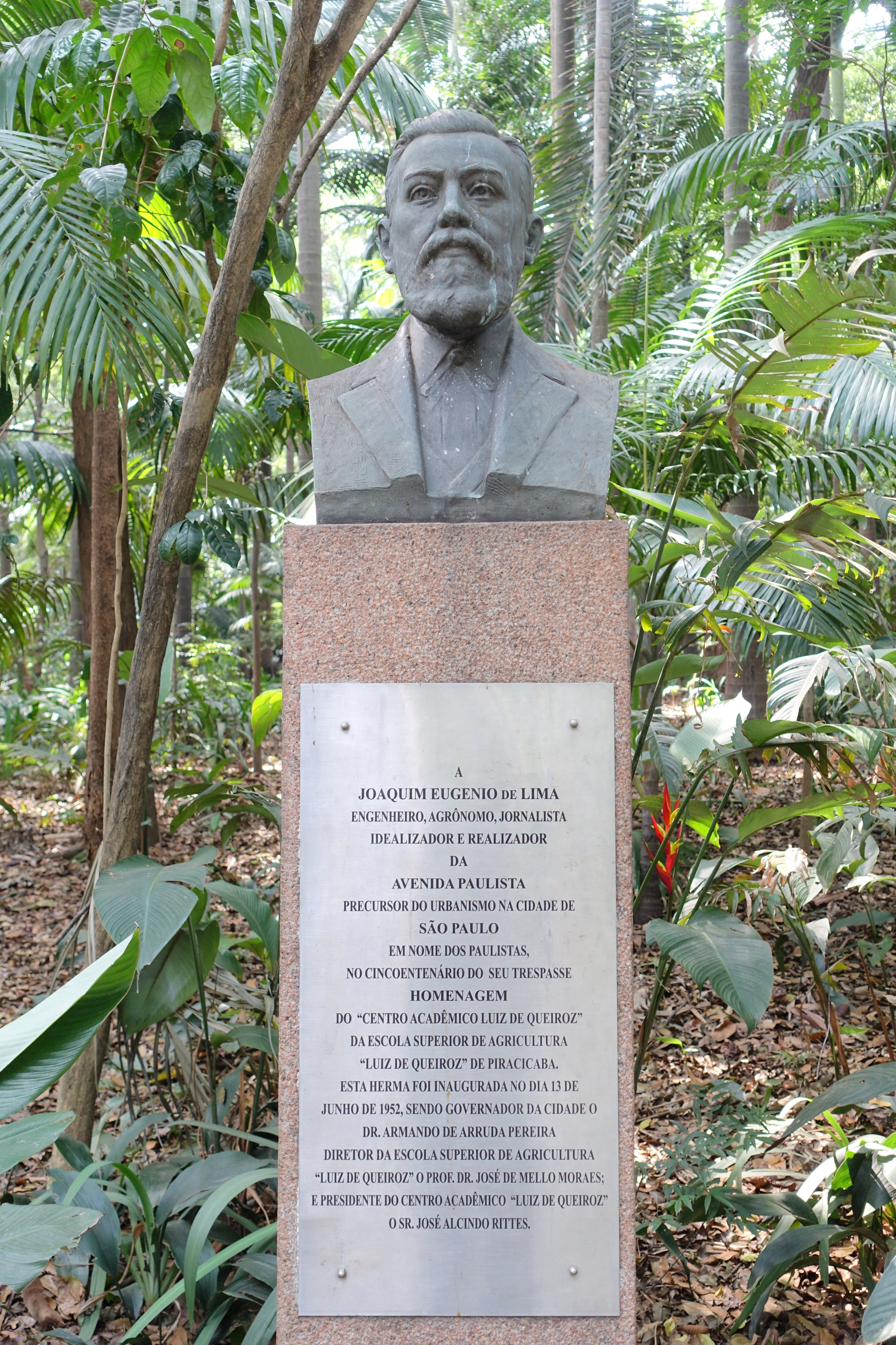 Joaquim Eugênio de Lima by Roque de Mingo - Parque Trianon - São Paulo, Brazil.